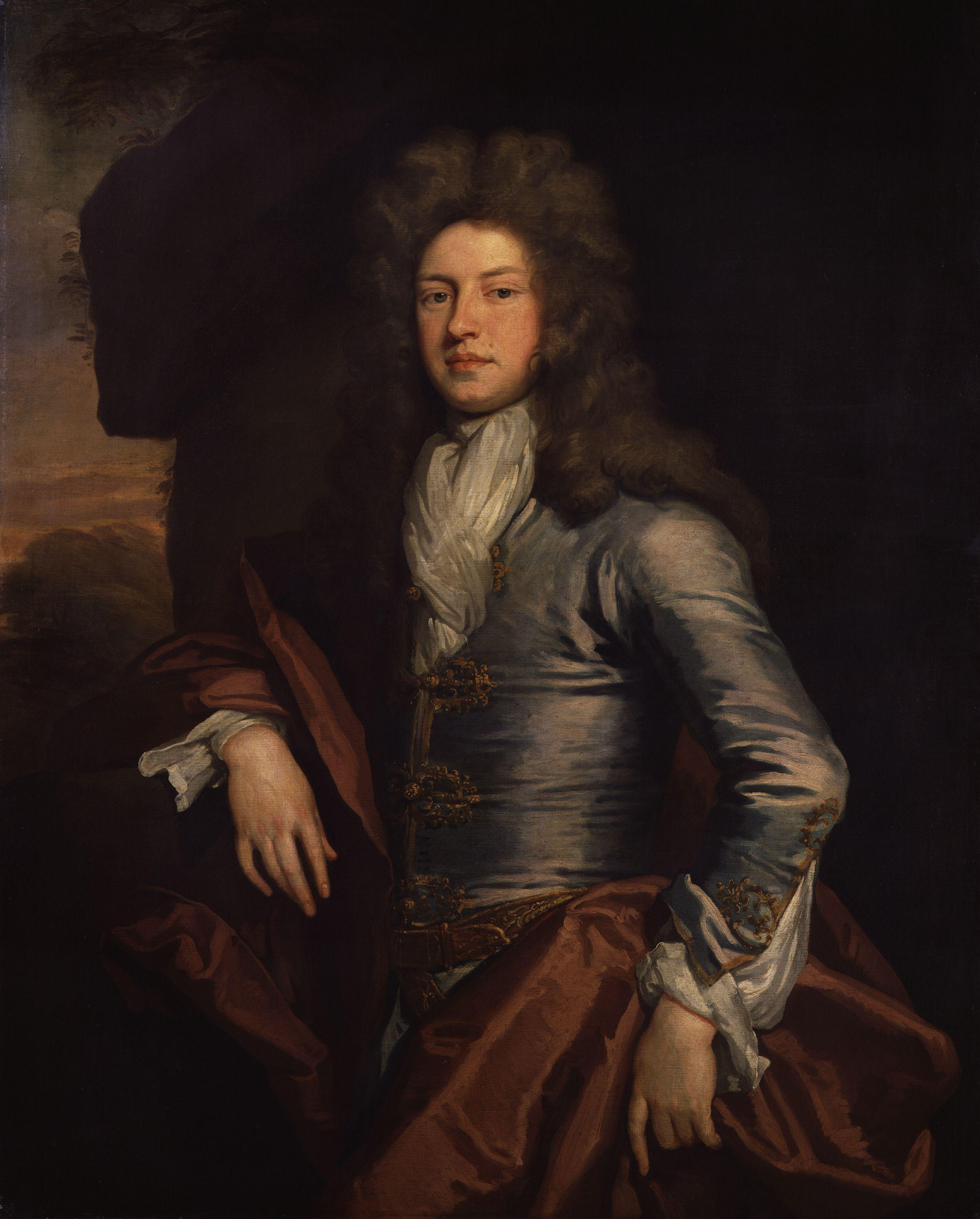 Charles Montagu, 1st Earl of Halifax, by Sir Godfrey Kneller, Bt (died 1723). All images in this batch have been confirmed as author died before 1939 according to the official death date listed by the NPG.